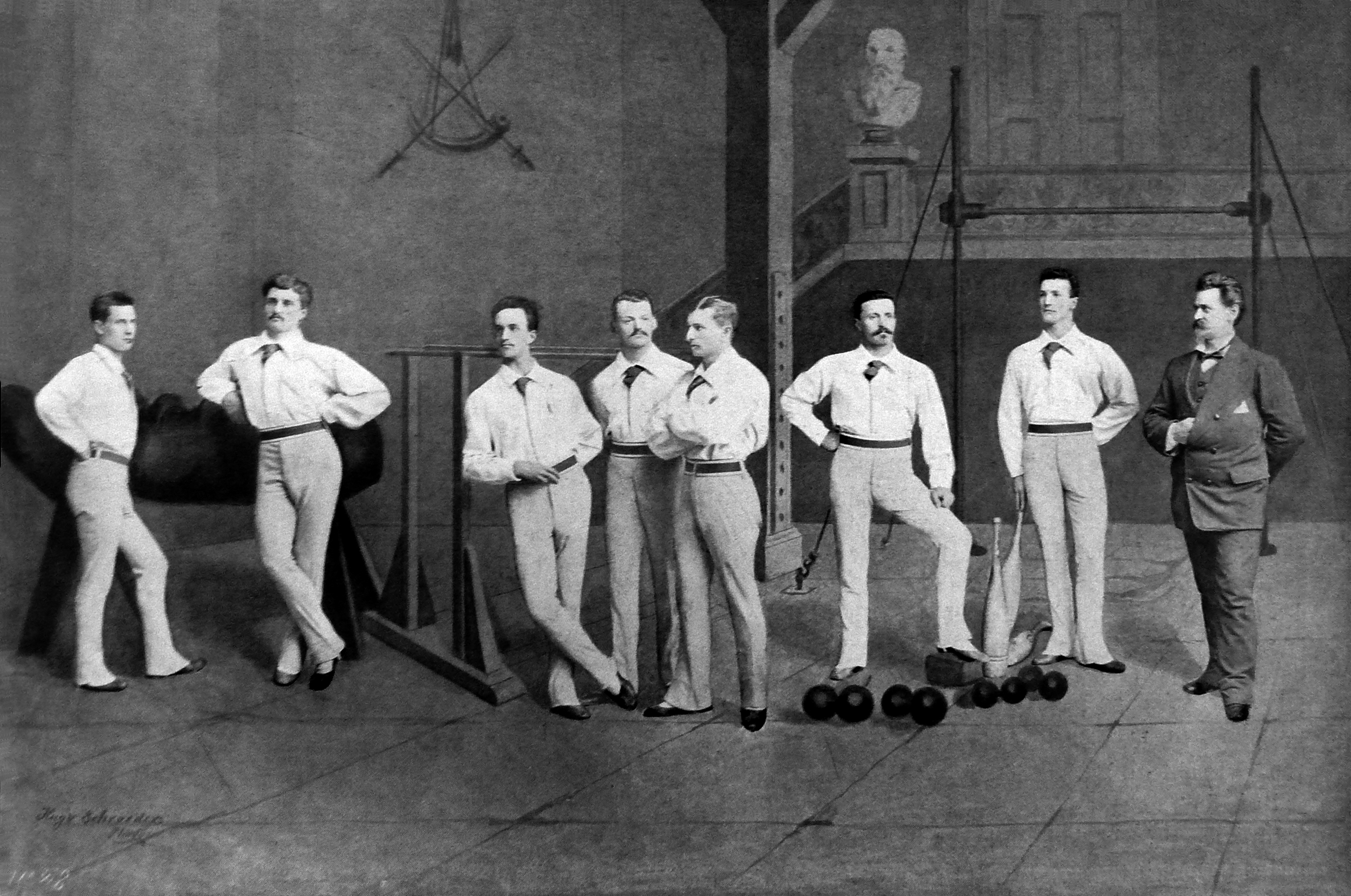 This squad from the Milwaukee Turnverein won five medals at Germany's Fifth National Turnfest at Frankfurt in 1880. From left to right: Hermann J. Koehler (2nd prize), Anton Schaefer (4th prize), Friedrich Kasten, Carl Paul (21st prize), Wilhelm Lachenmaier, Otto Wagner (3rd prize), Carl Mueller (5th prize), George Brosius (gymnastics teacher).